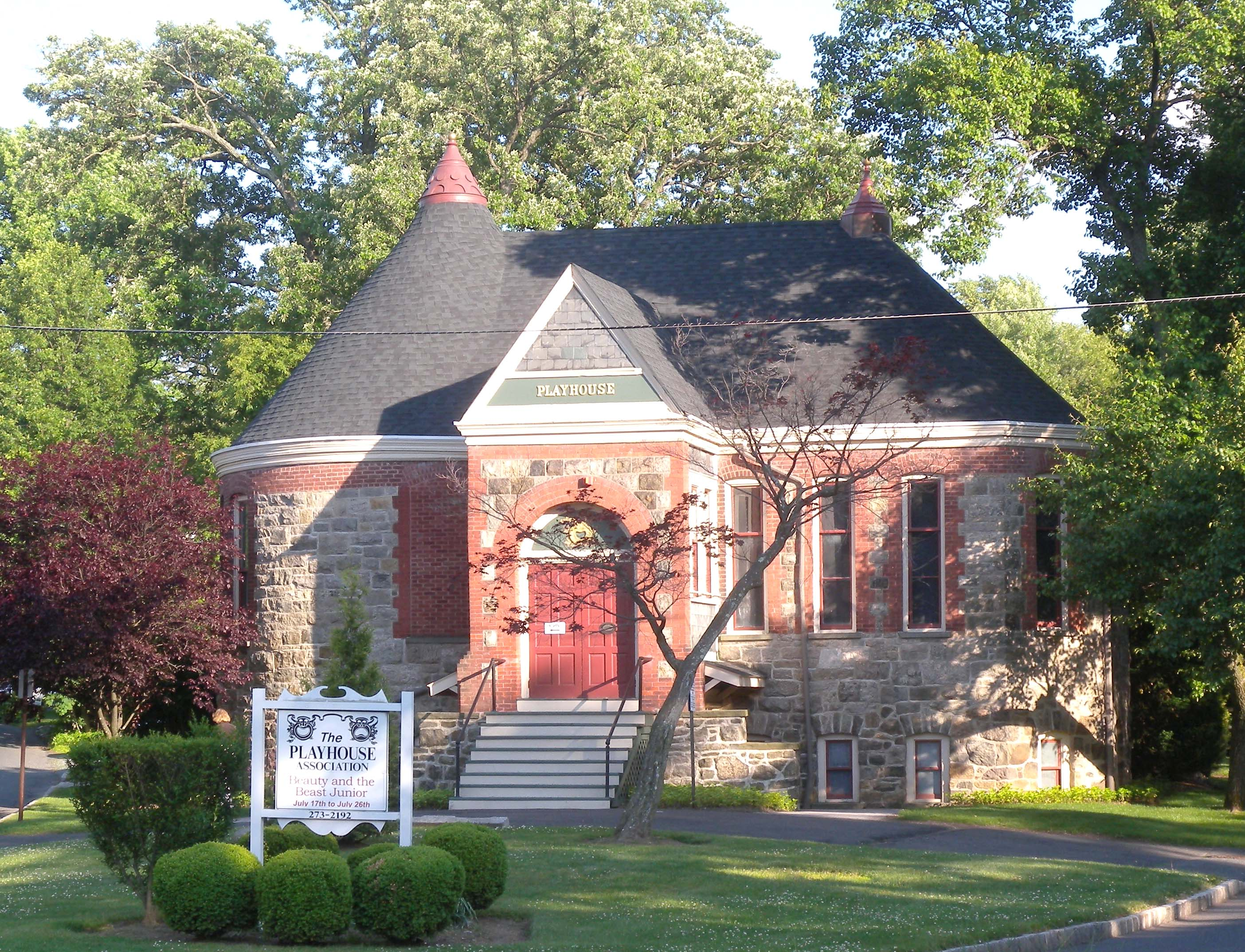 Looking southeast at Playhouse at head of Tulip Street in Summit.